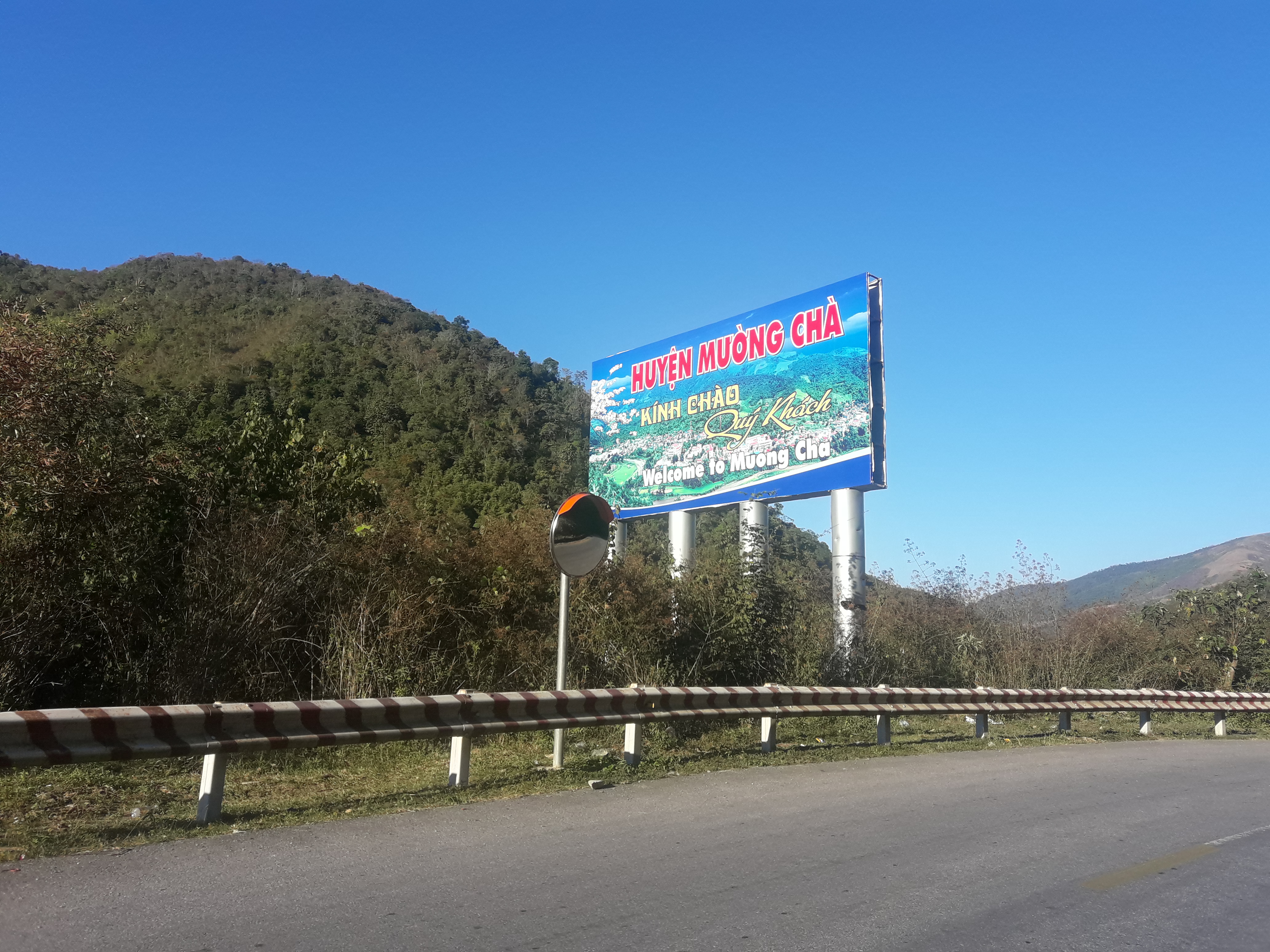 Welcome to Muong Cha banner